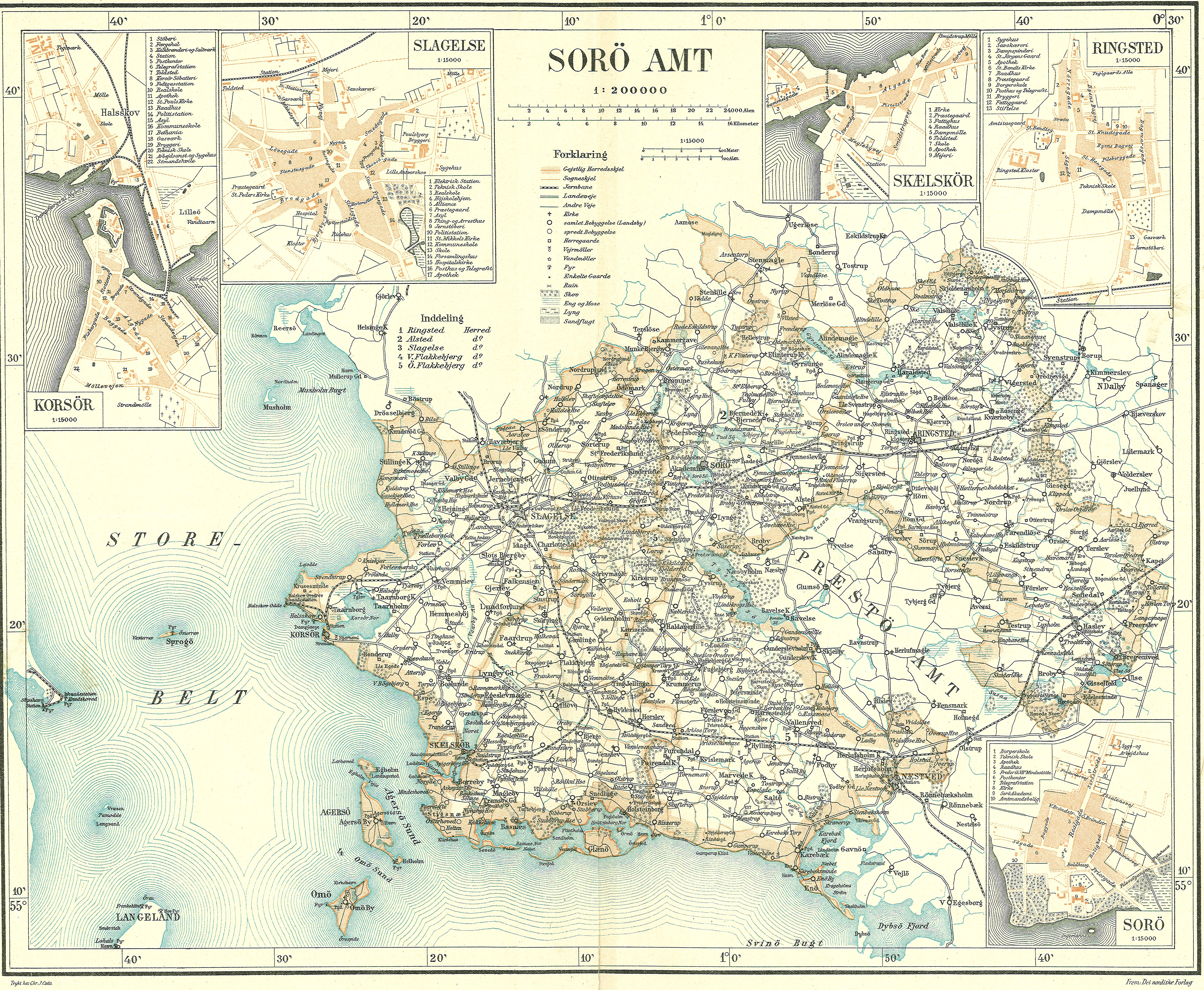 Map of Sorø County in Denmark